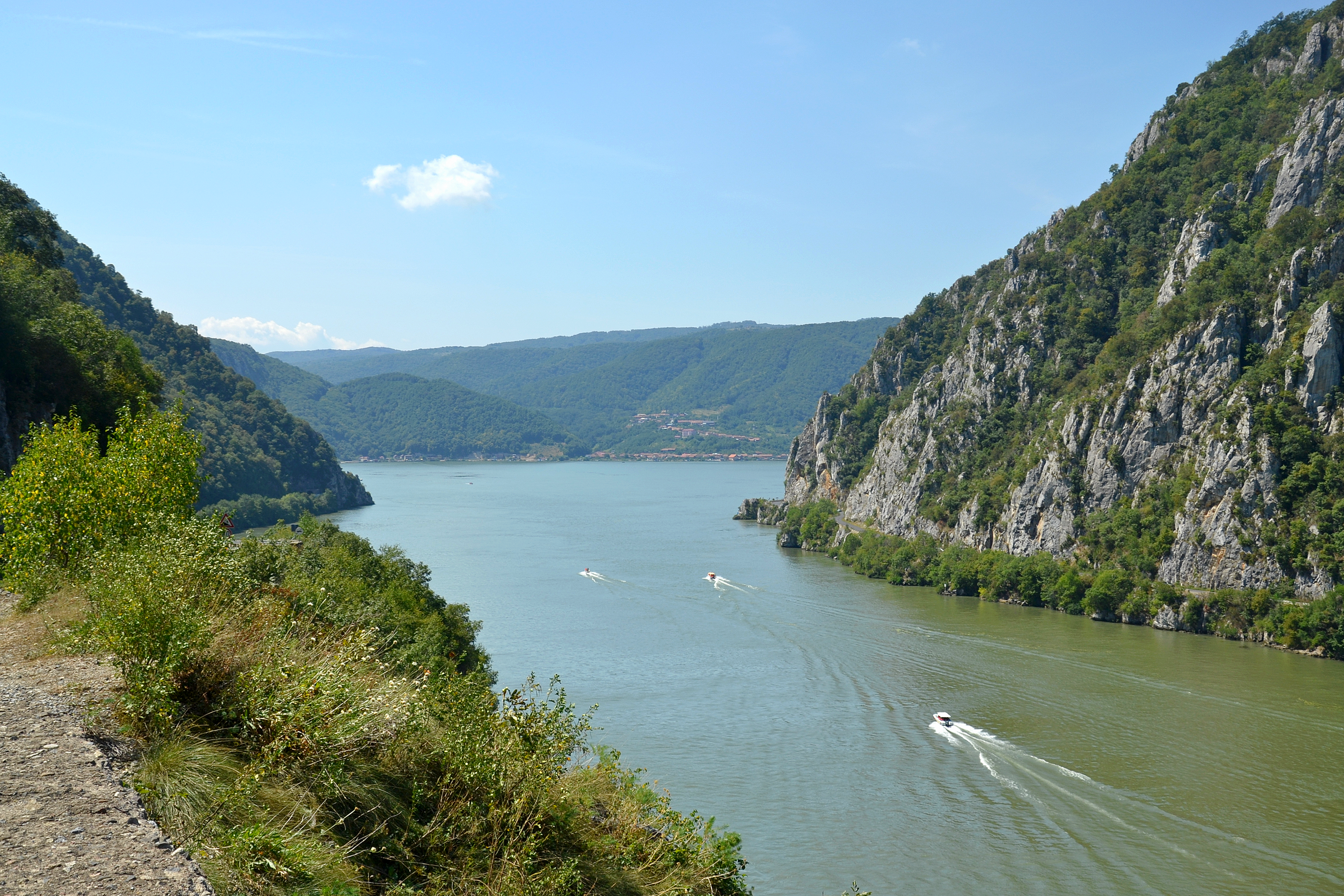 Iron Gate, Danube river between Serbia (left) and Romania (right)